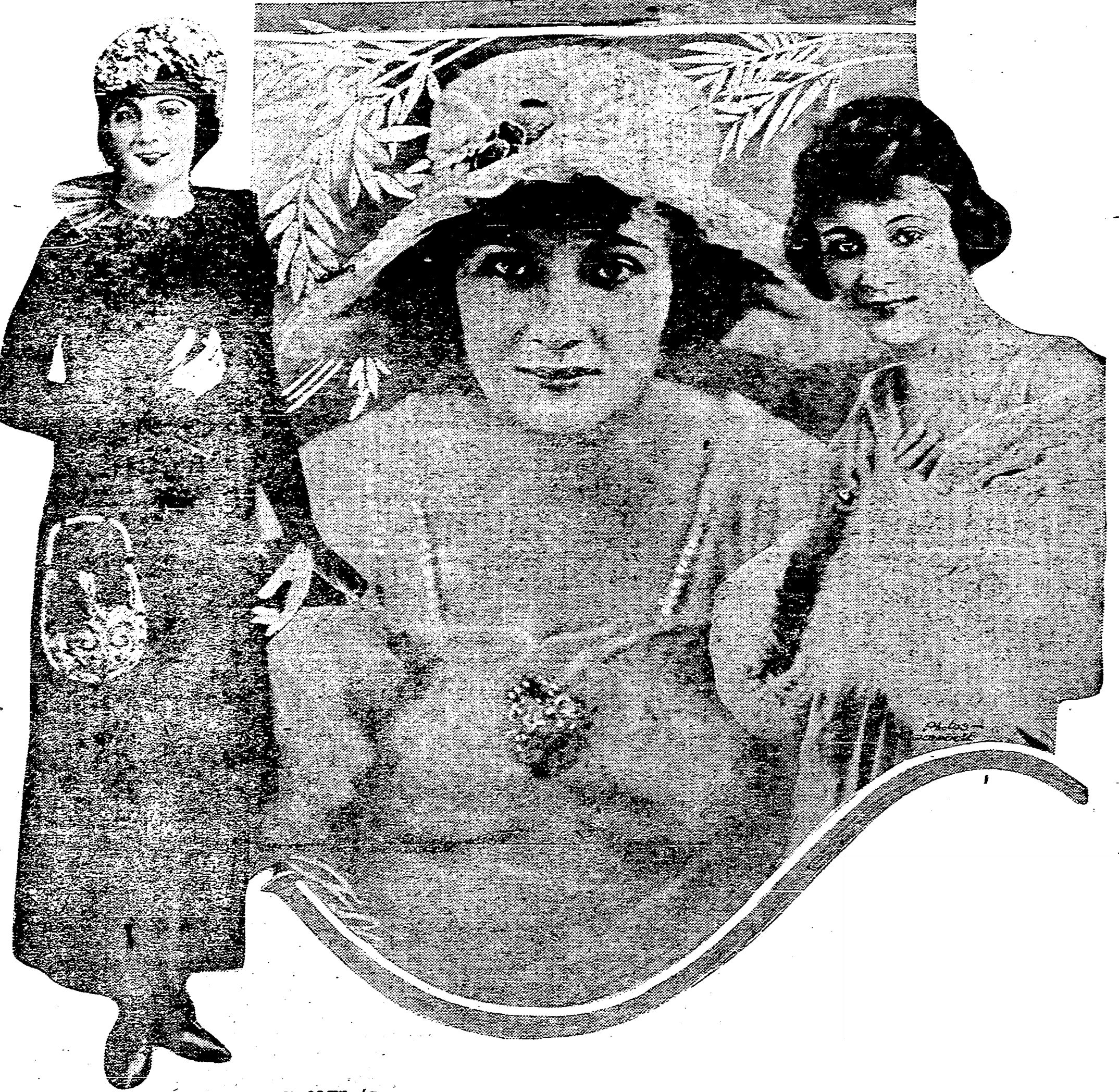 Three views of silent film actress Evelyn Greeley, from an article printed in the San Diego Union of April 7, 1918, titled "From Extra Girl to Screen Star".